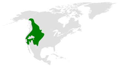 Poecile gambeli distribution map, based on